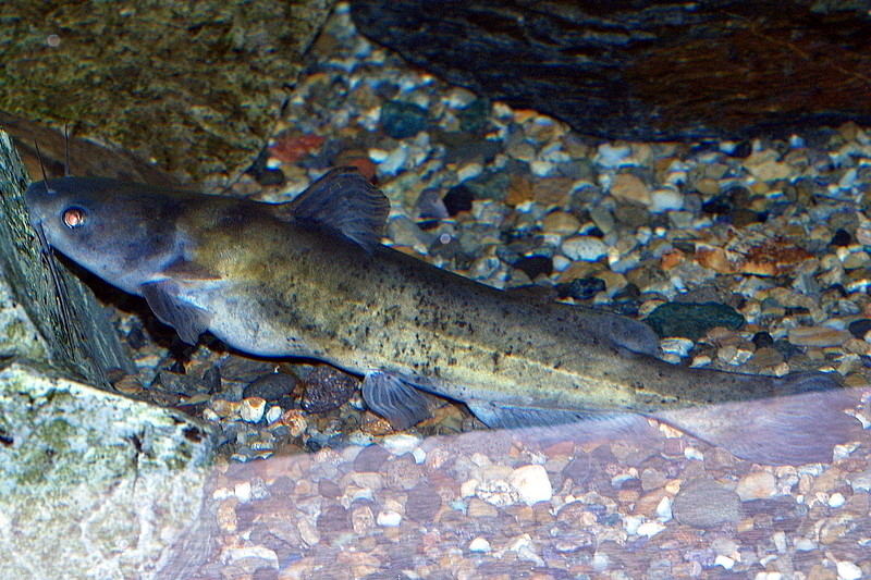 Gigi catfish Pseudobagrus nudiceps (=Syn. Tachysurus nudiceps) (Sauvage, 1883)